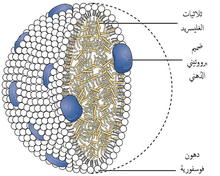 Illustration from Anatomy & Physiology, Connexions Web site. Jun 19, 2013.